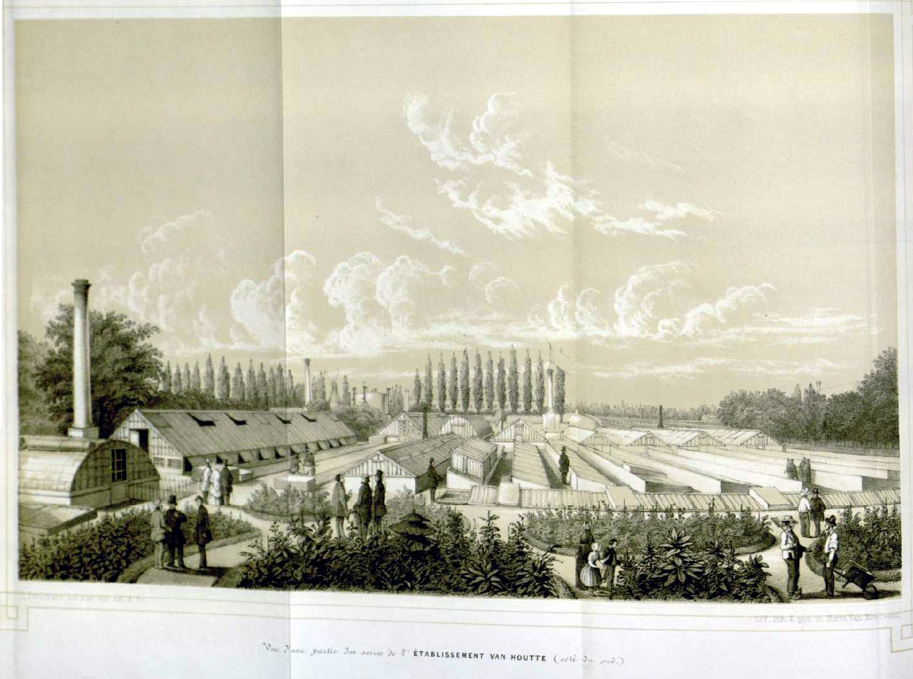 van Houtte's nursery at Gentbrugge near Ghent